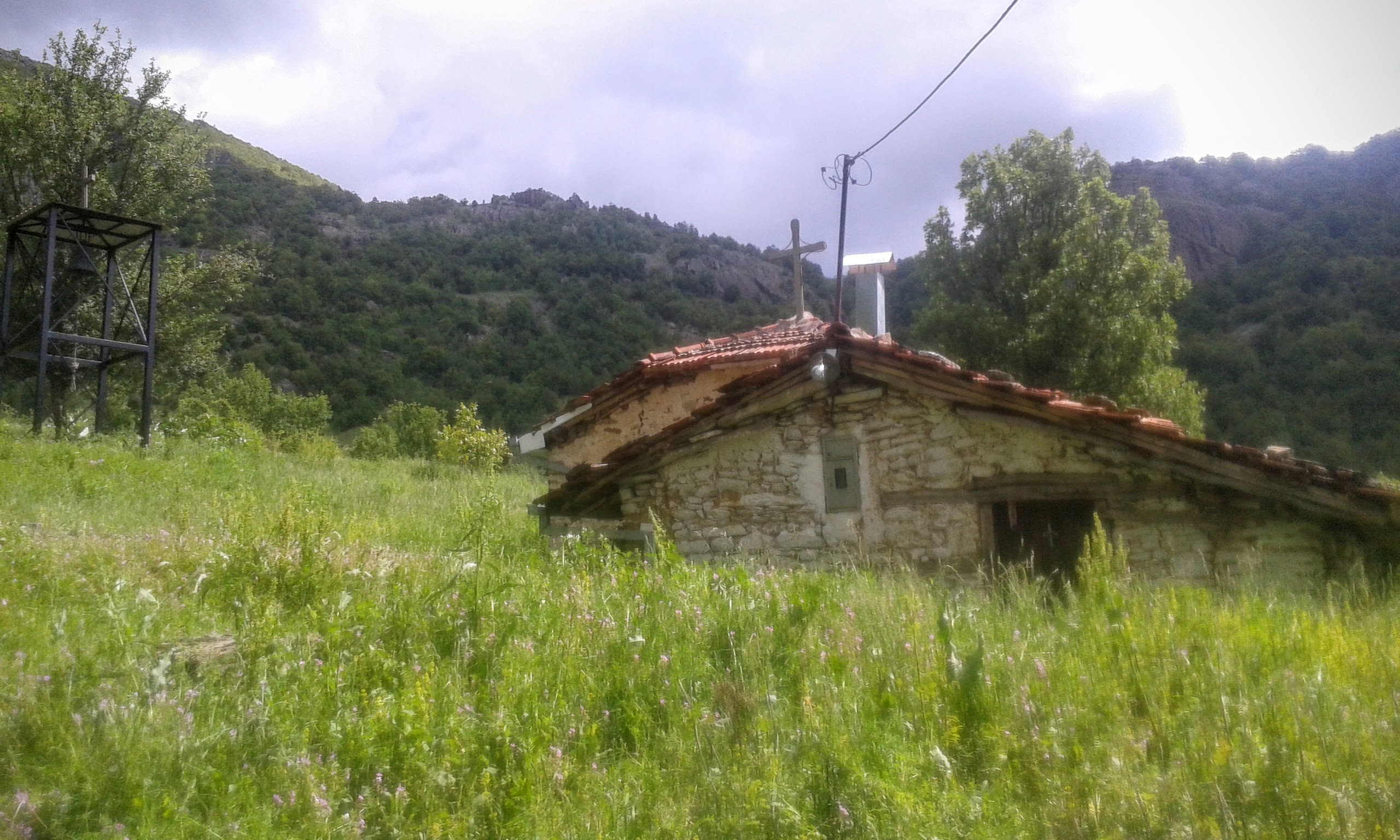 Pictures from photohunt in Azot